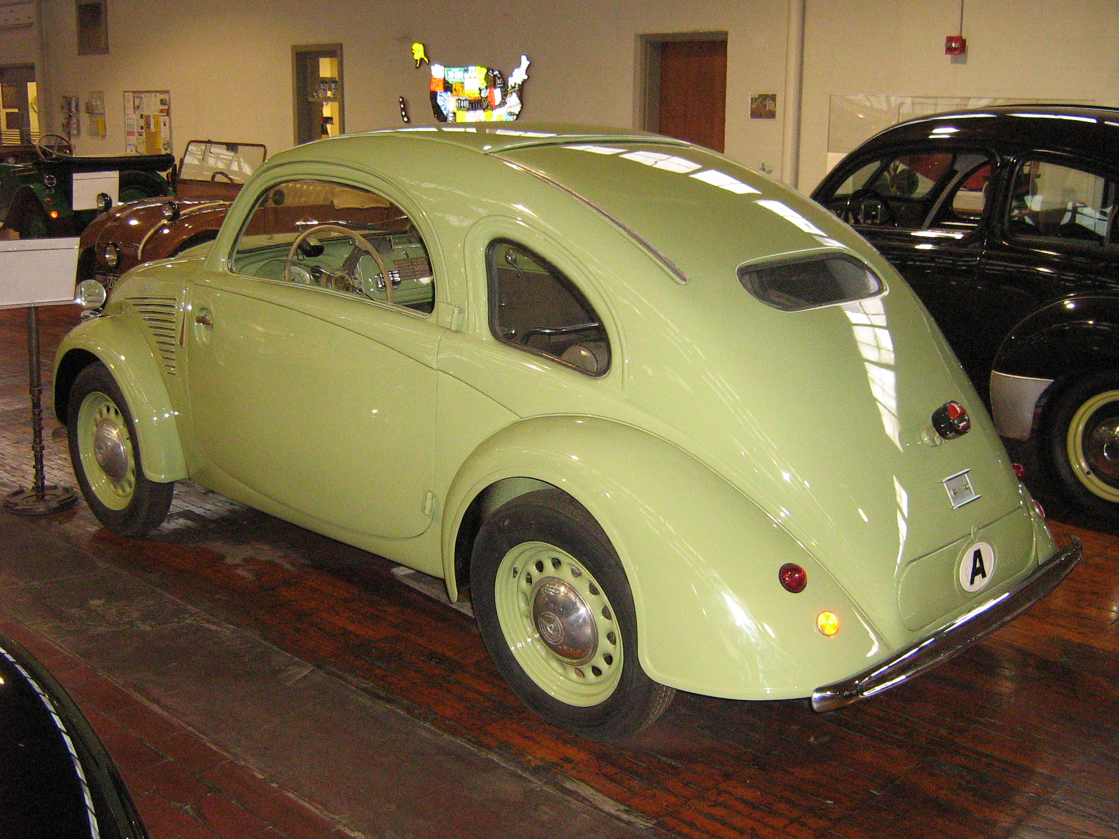 A 1936 Steyr 50 at Lane Motor Museum in Nashville